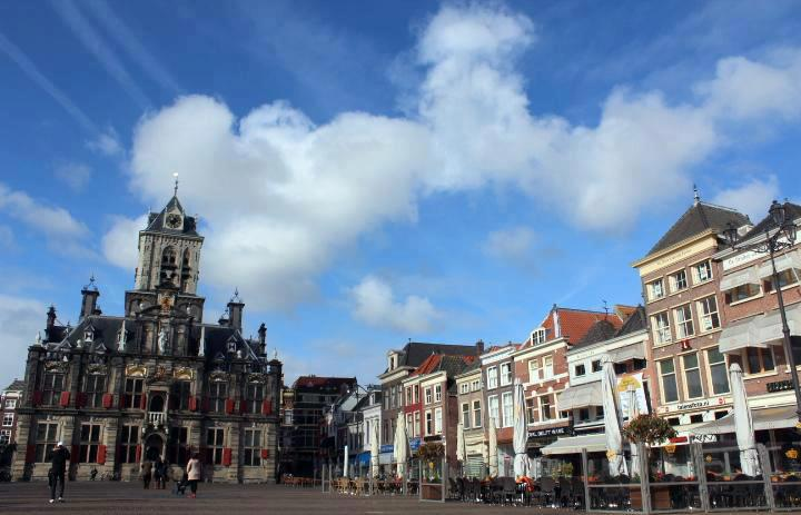 Delft, Zuid Holland. In the left is Delft City Hall.